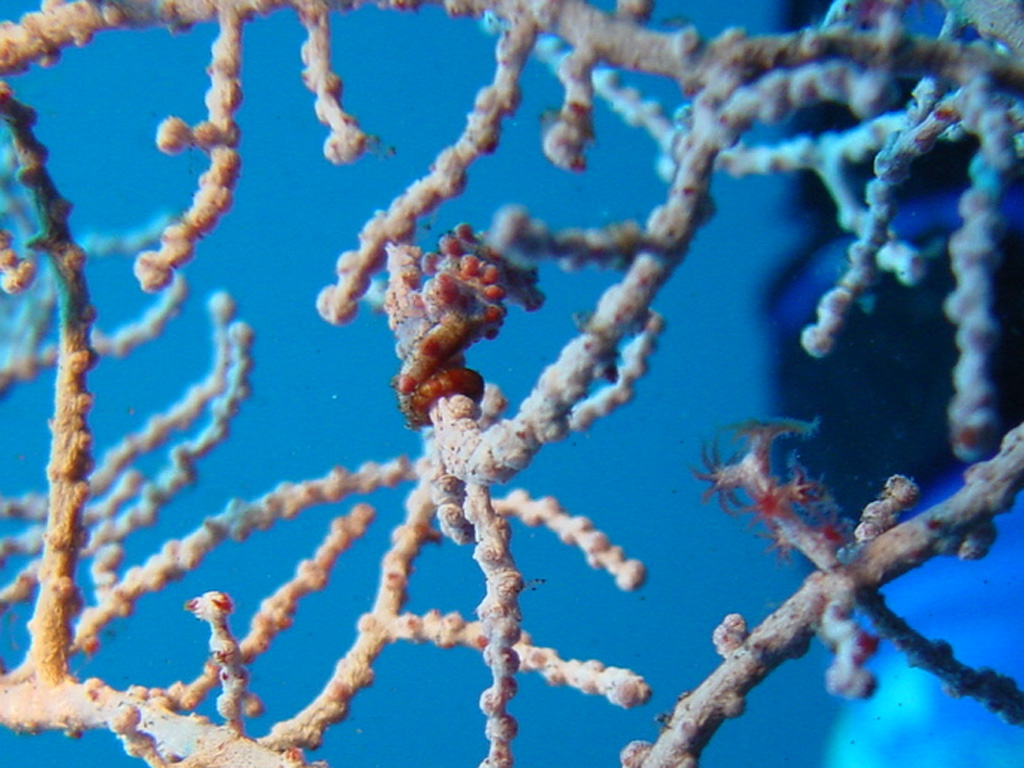 This picture is taken at Tulamben, Bali in 2002. It lives around 32 meters deep near the wreck ship, U.S.S Liberty.